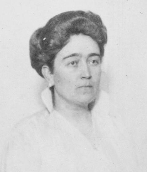 Jutta of Mecklenburg-Strelitz, Crown Princess of Montenegro